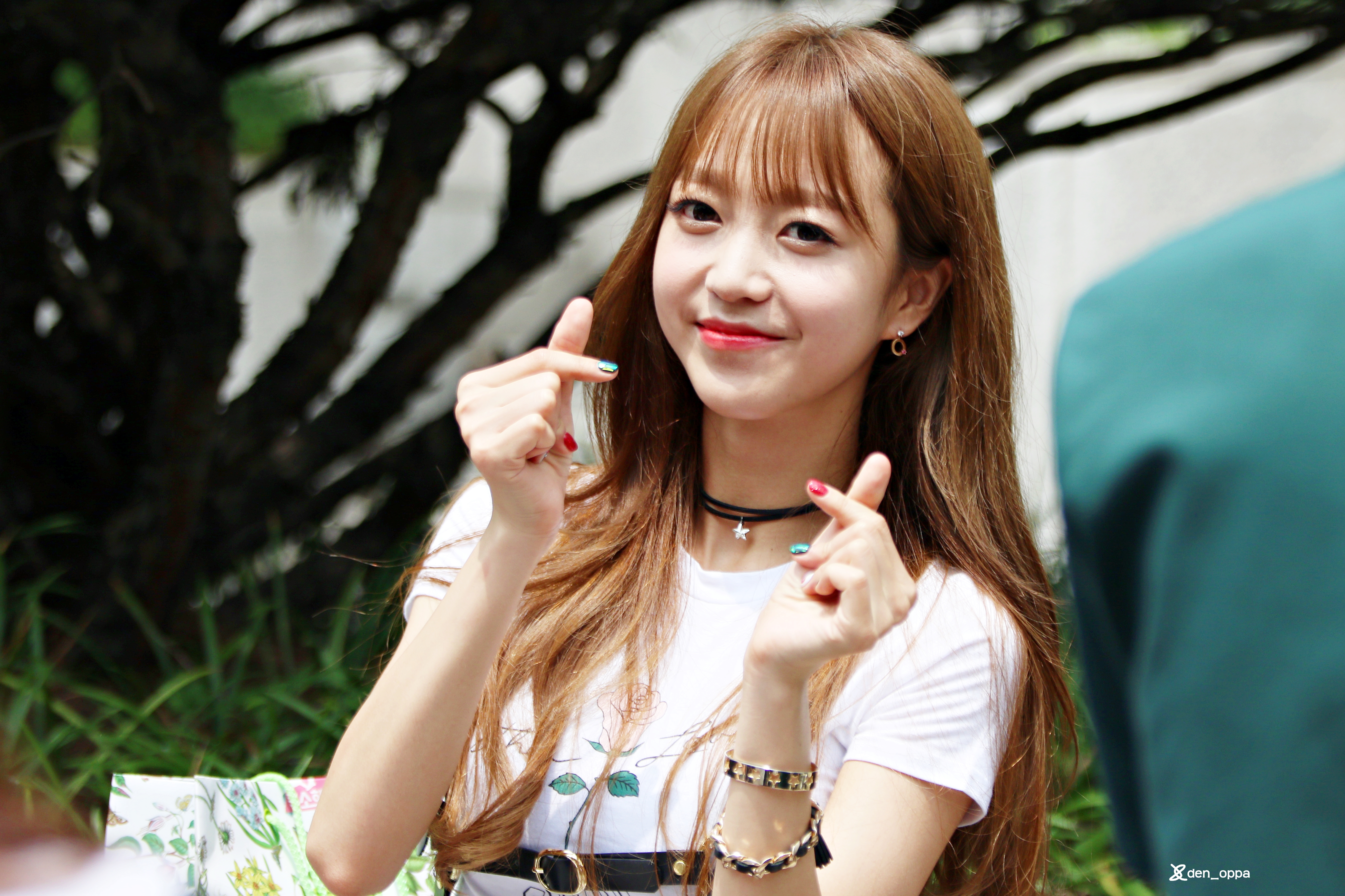 CIVA member who makes finger hearts in 2016.